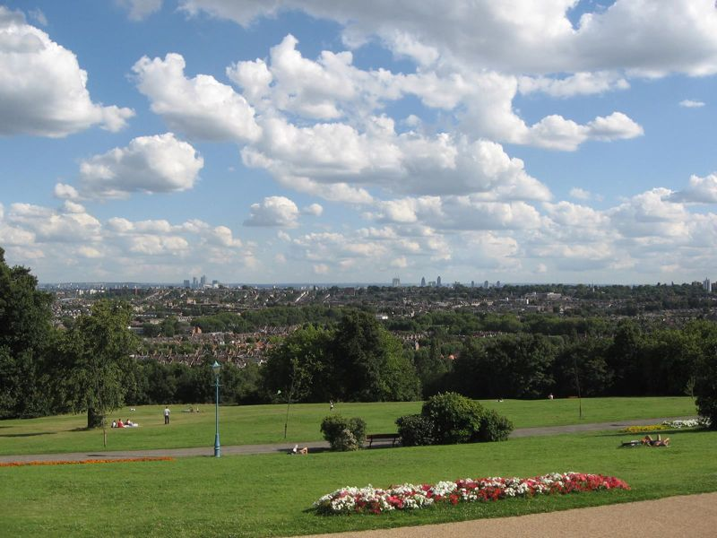 Part of Haringey as seen from Alexandra Palace, the borough's highest point.